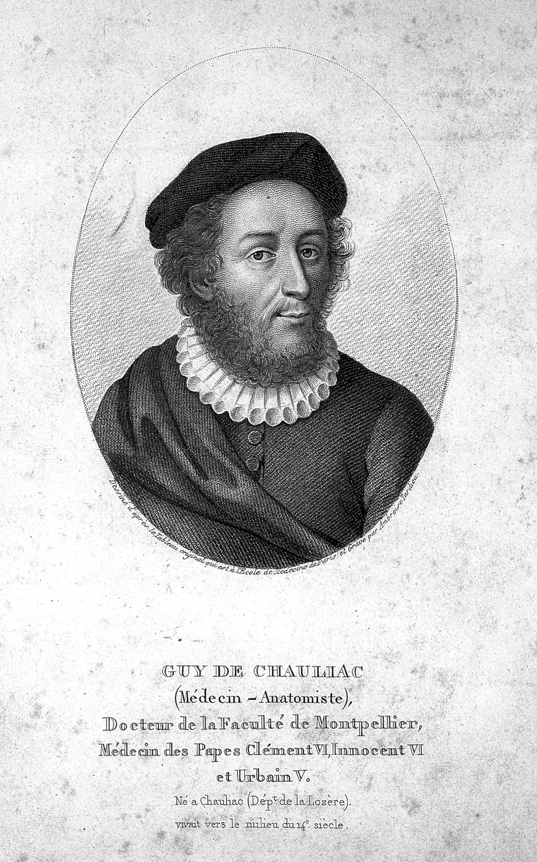 Guy de Chauliac. Stipple engraving by A. Tardieu after himself. Wellcome Images Keywords: Guy de Chauliac